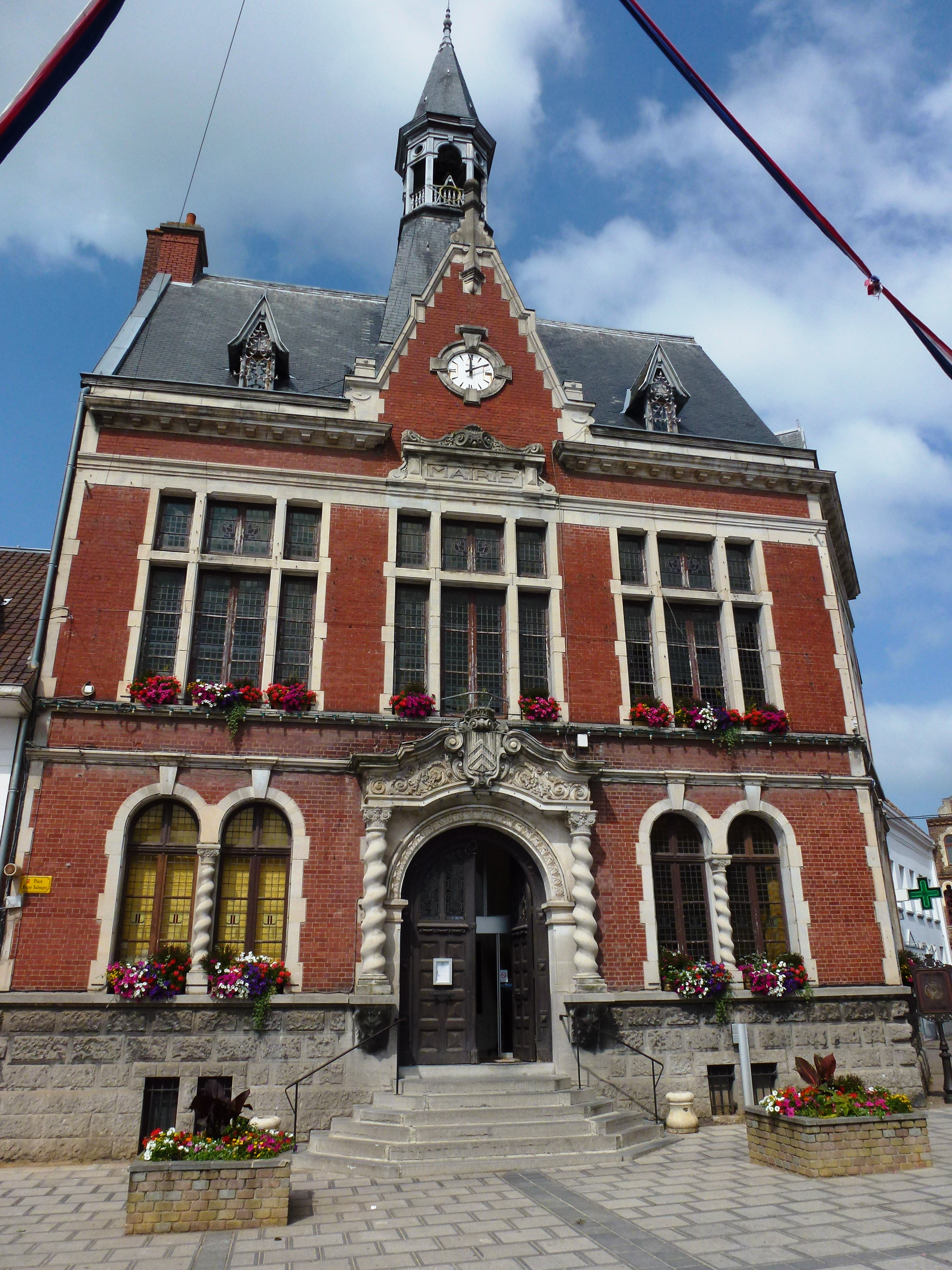 Lillers (Pas-de-Calais) mairie